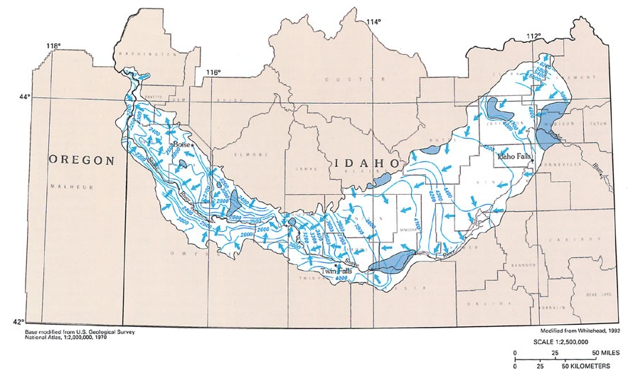 Map of the Snake River Plain Aquifer, Idaho, USA